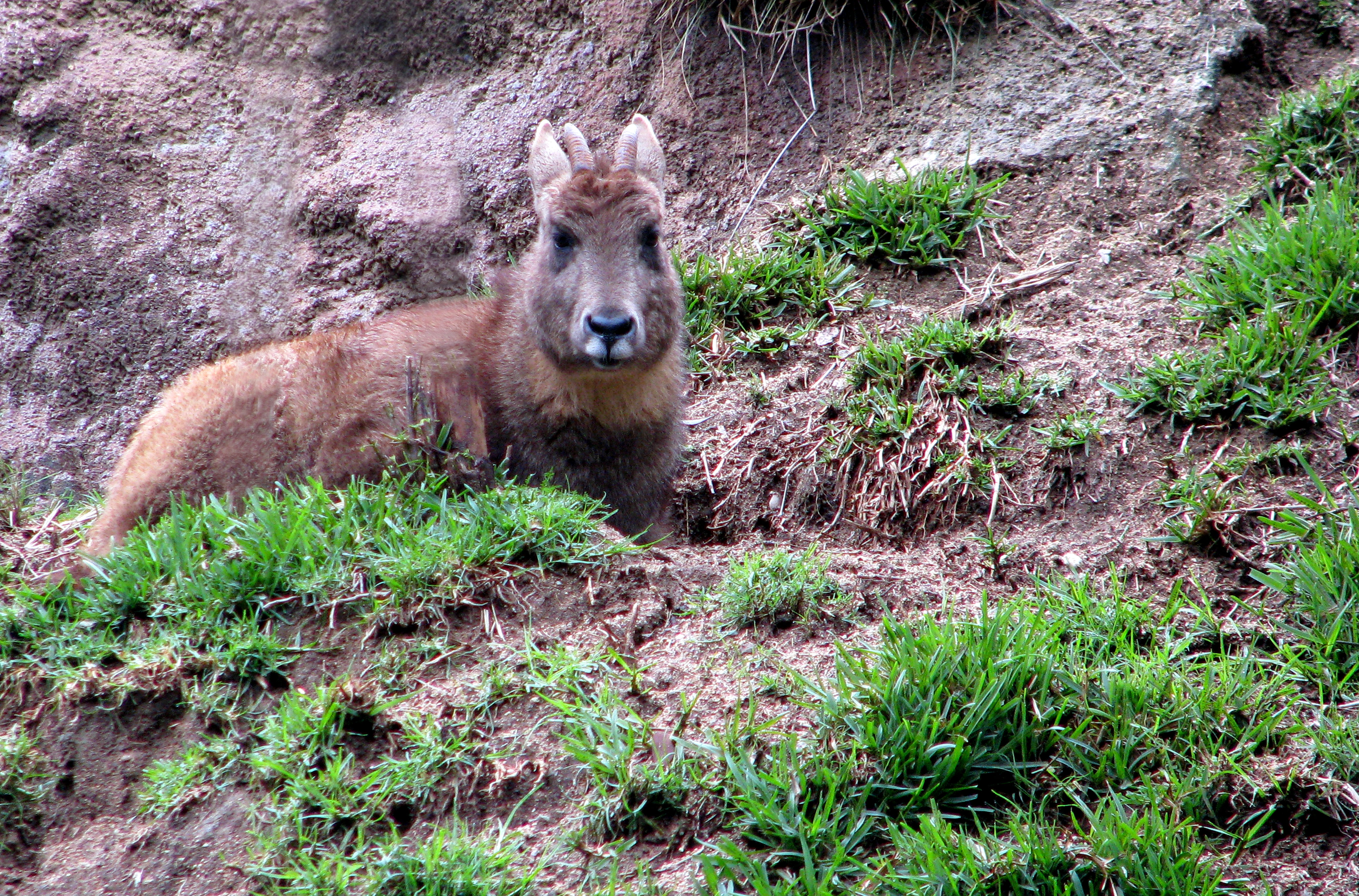 Naemorhedus goral